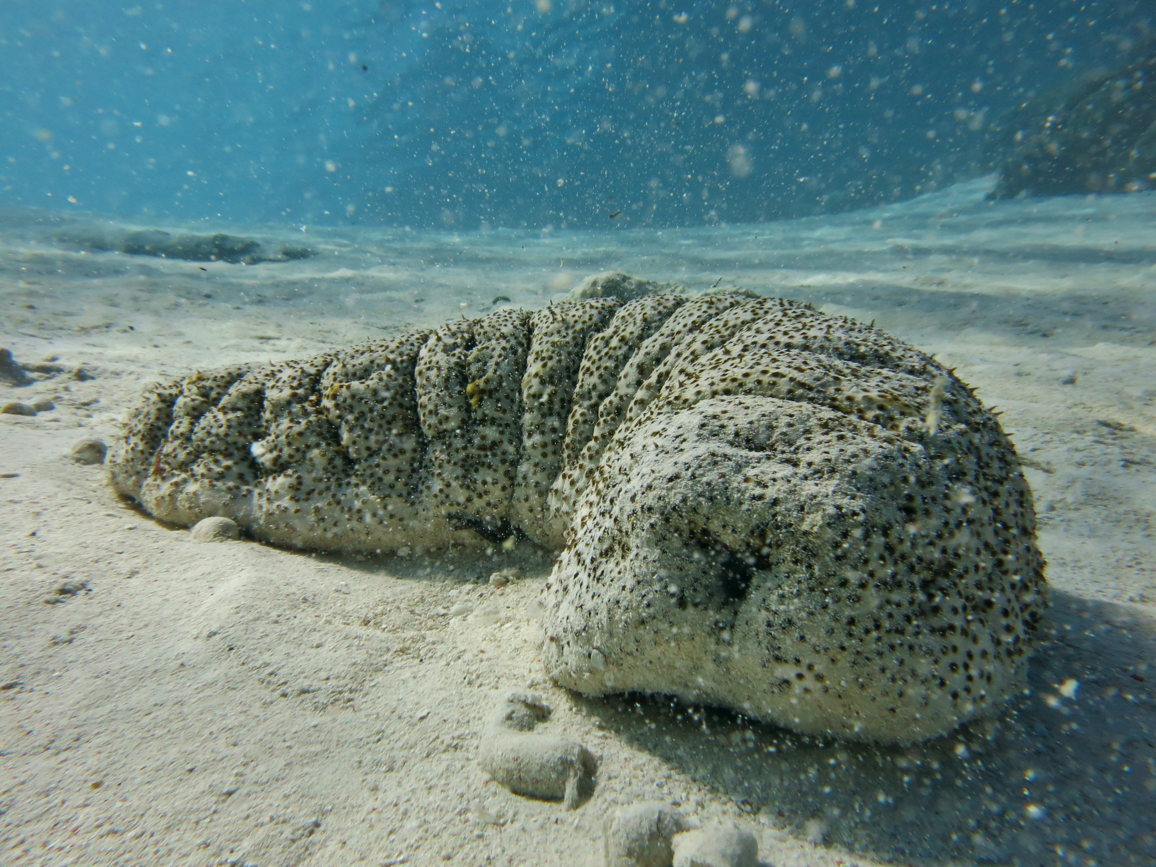 An "elephant trunk" sea cucumber, Holothuria fuscopunctata, in the Maldives, Baa Atoll.